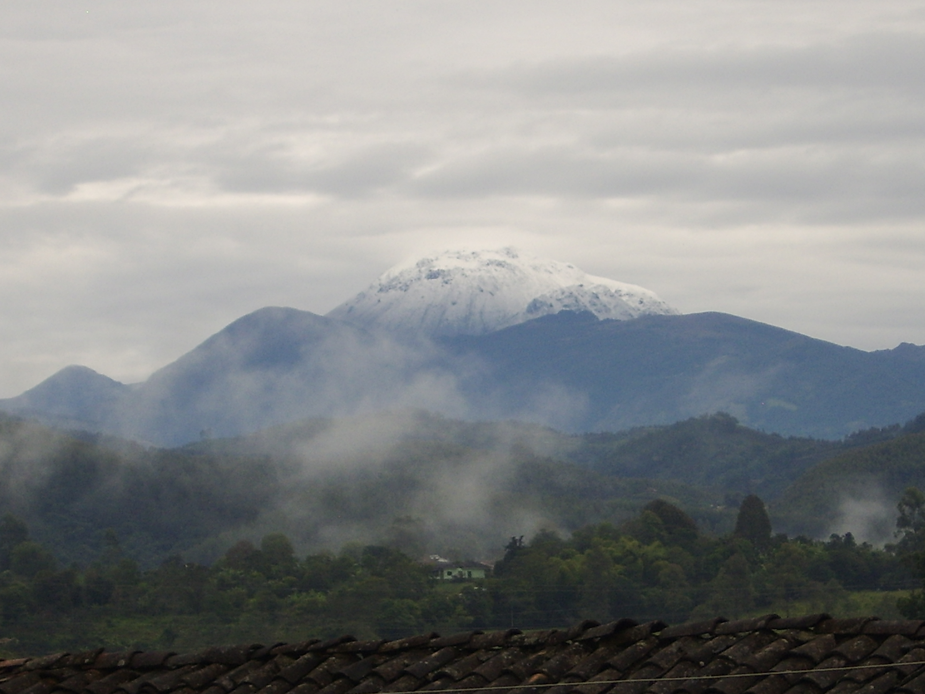 this is a picture of sorata volcano ubicate in cauca state.sometimes this volcano have snow